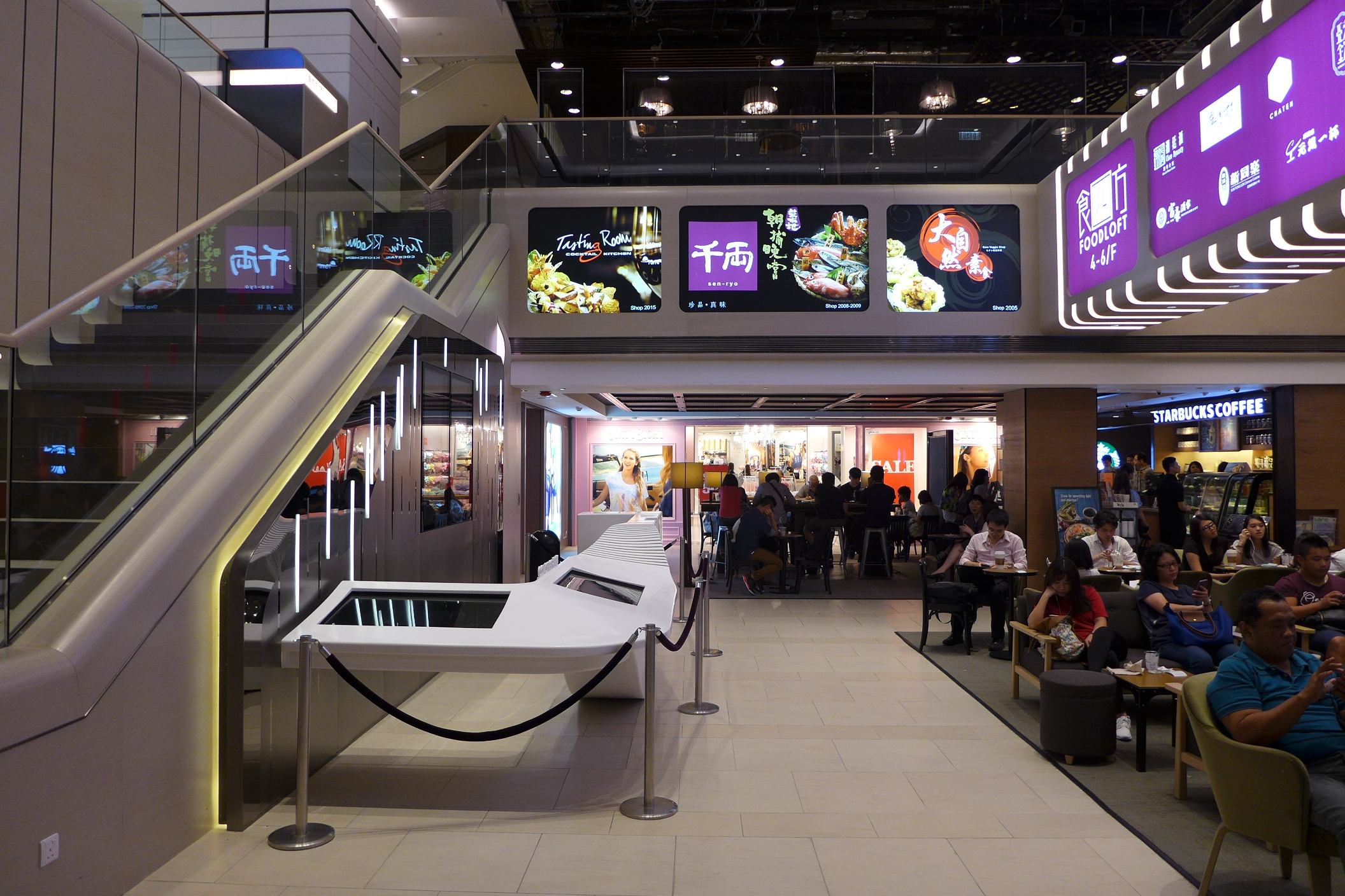 MMiramar Shopping Centre Void near Kuntsford Terrace